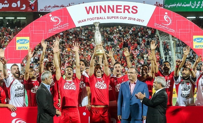 Persepolis vs. Naft Tehran, 2017 Iranian Super Cup